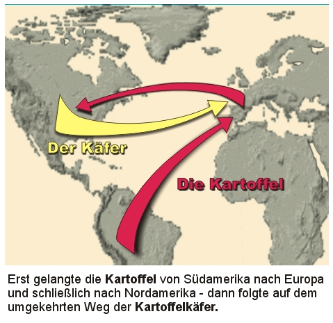 Kartoffelkäfer, Colorado potato beetle, Verbreitung, distribution